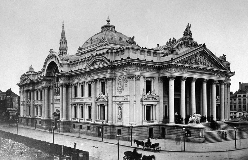 The Brussels Stock Exchange in 1880